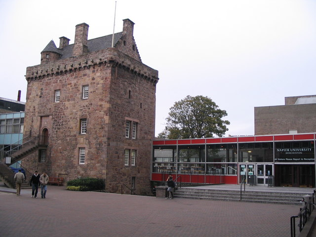 Merchiston Tower, Napier University John Napier [1550-1617], eighth Laird of Merchiston, was born in Merchiston Tower. He is relatively little known outside mathematical circles, but his work on logarithms is considered by some to be the single greatest advance in the history of mathematics. He also published a small treatise on a simple way to perform multiplication, with what became known as Napier 's 'Rods' or 'Bones'. In an appendix he explained another method of multiplication and division using metal plates, which is the earliest known attempt at a mechanical means of calculation - and which makes him the grandfather of our modern day calculator. Merchiston Tower was built in the middle of the 15th century, either by Andrew Napier, Merchant and Provost of Edinburgh, or by his son, Sir Alexander Napier, Vice-Admiral of Scotland, Controller of the Royal Household of James ll, and twice Provost of Edinburgh, who inherited the estate in 1454. Edinburgh Corporation acquired the Tower in 1935 and it lay almost unused until the idea of incorporating it into a technical college was first raised in 1956, and finally approved in 1958. That college is now Napier University.